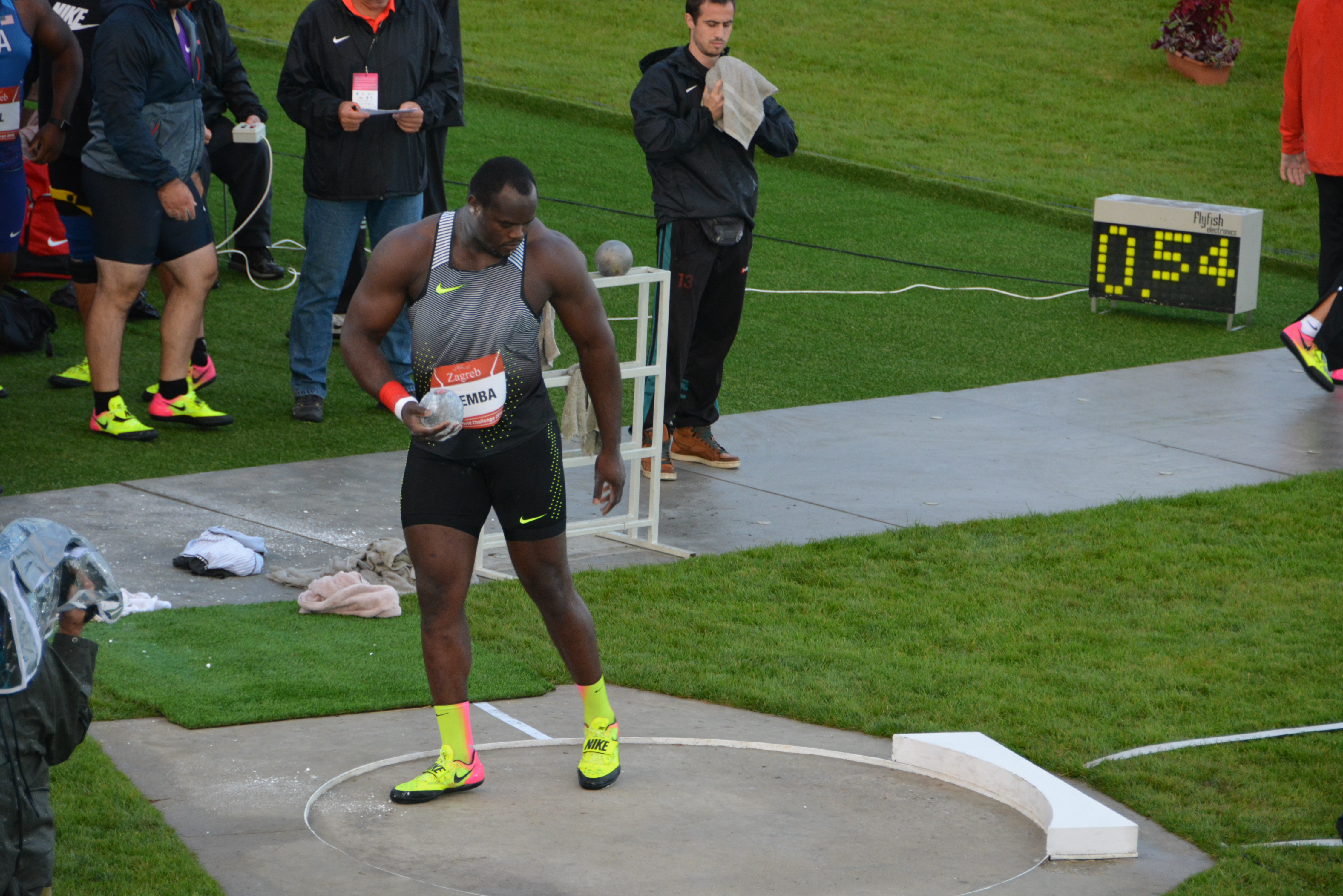 Franck Elemba at the 2016 Hanžeković Memorial in Zagreb.